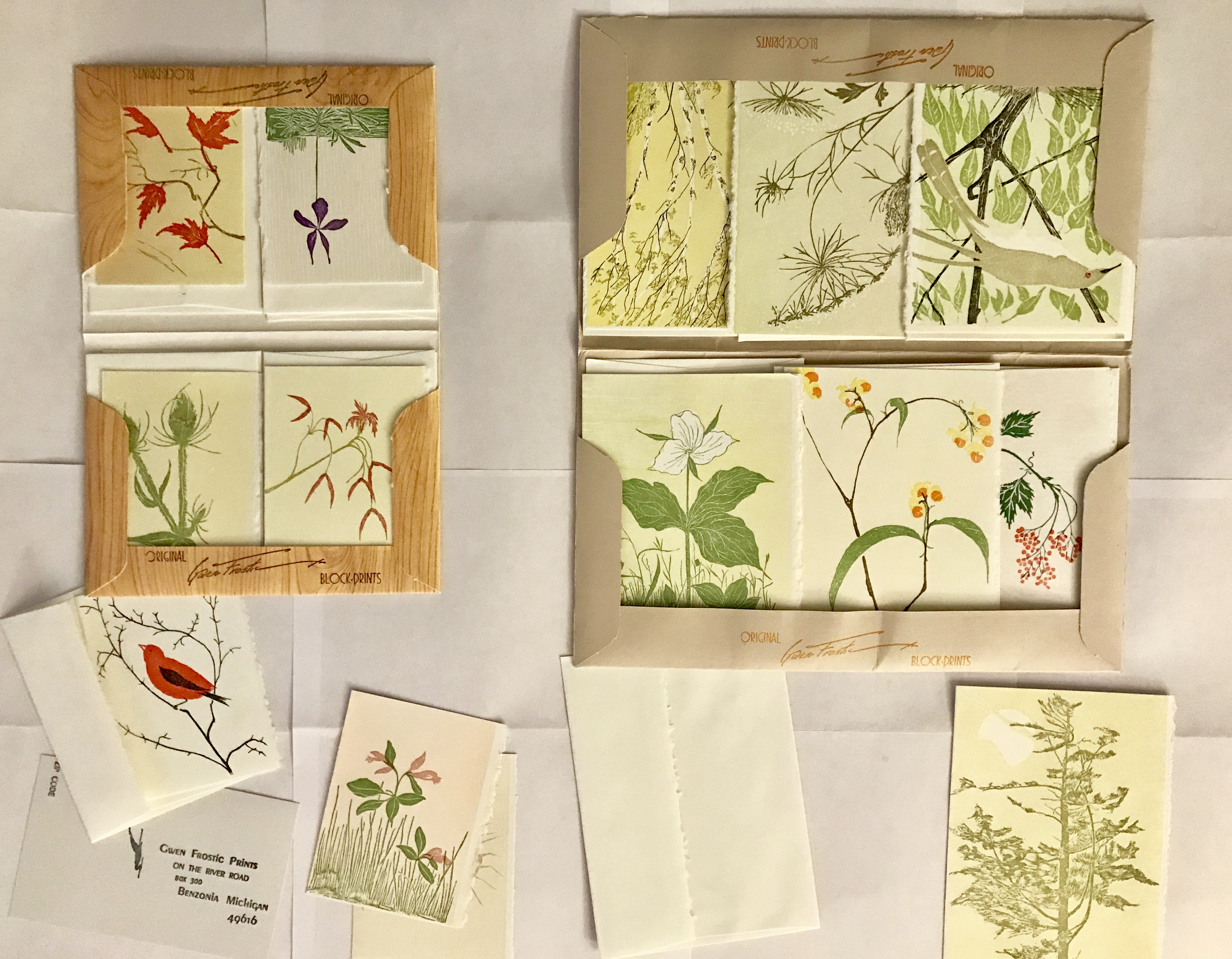 Gwen Frostic cards, linocut process using Heidelberg press